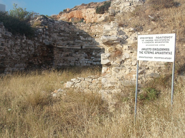 Boulefterion of Paros - Krios